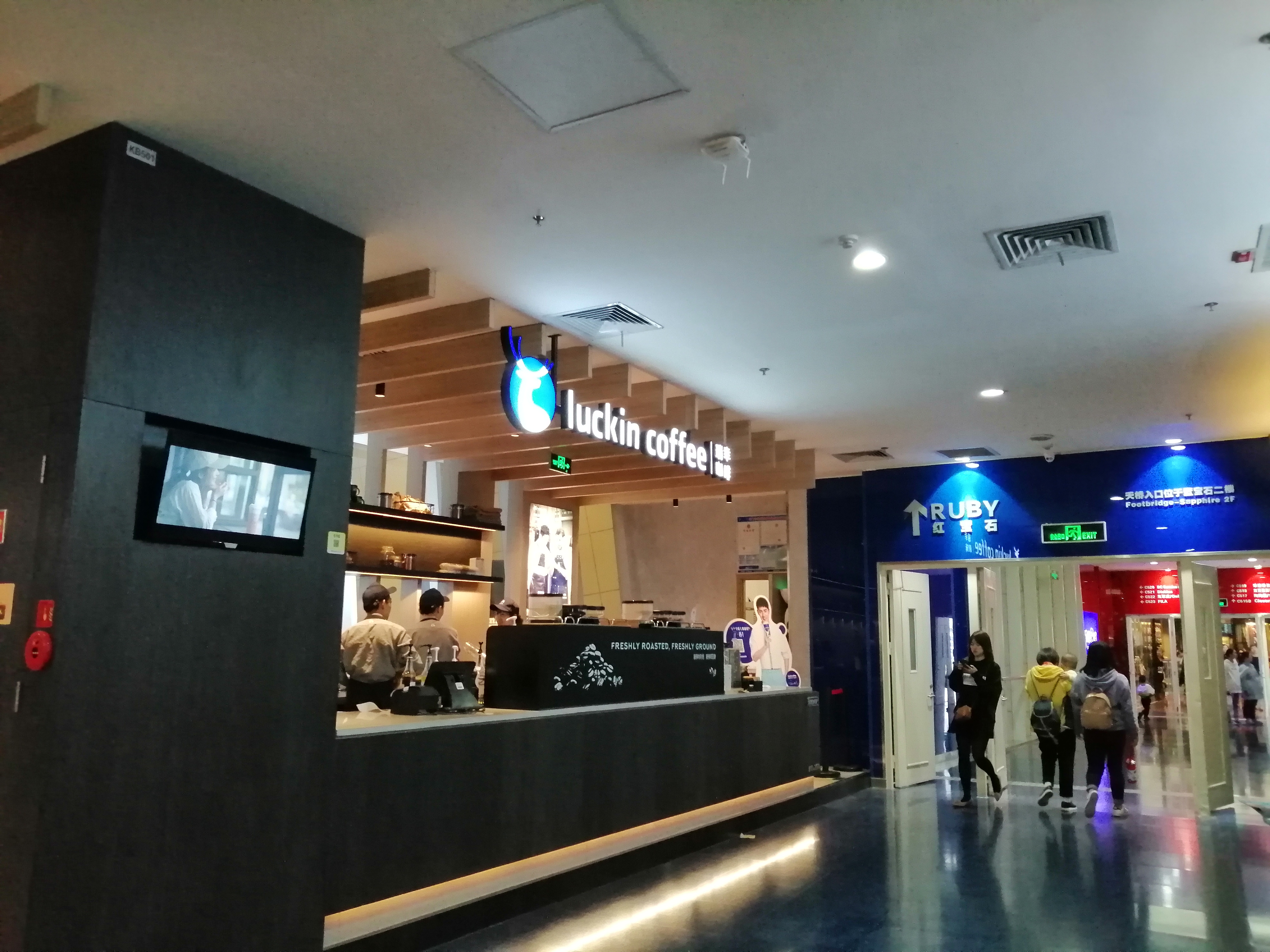 Luckin Coffee, located in SM Lifestyle Mall. 中文（中国大陆）: 瑞幸咖啡位于厦门SM新生活广场的门店